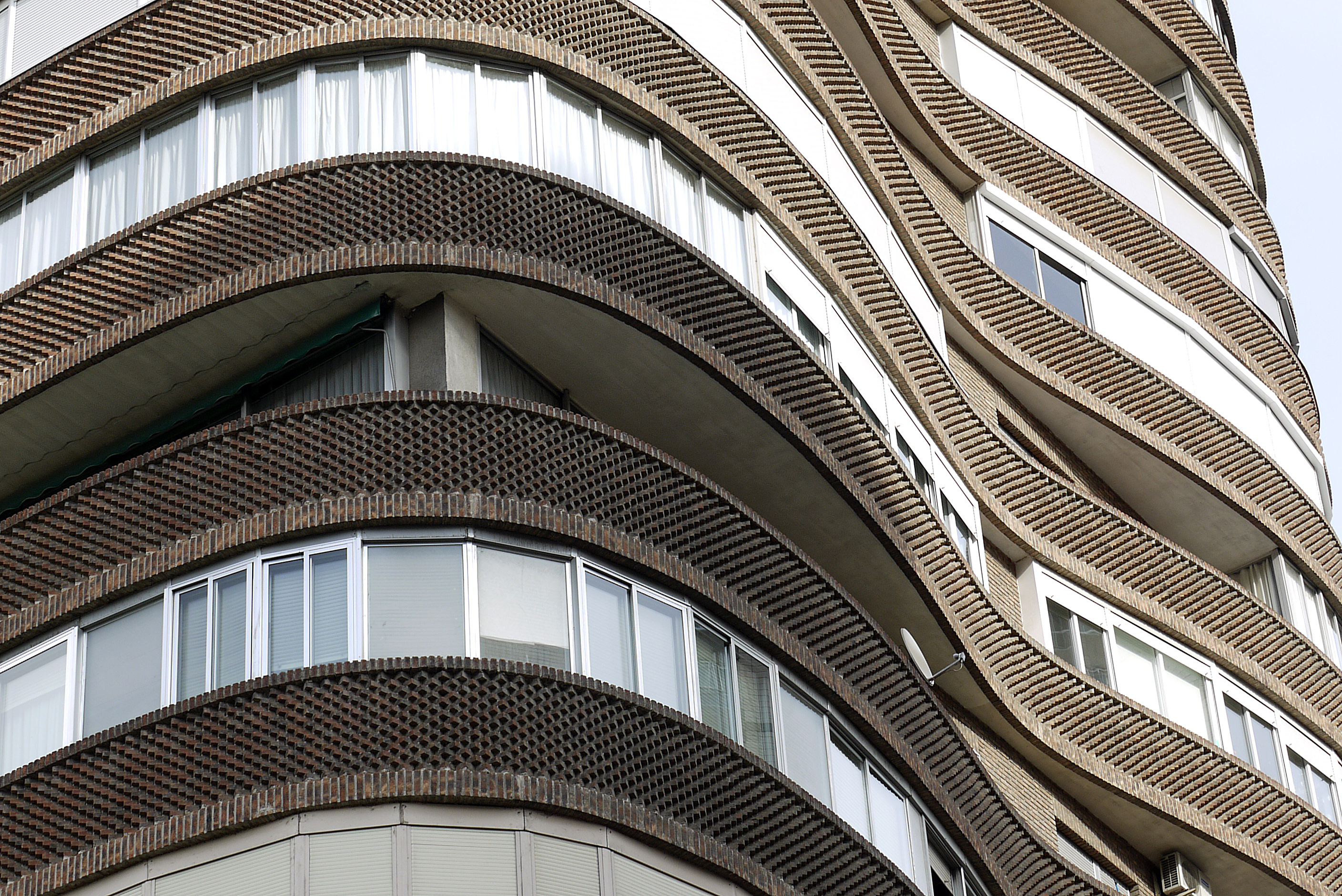 C/ Caleruega, Ciudad Lineal (Costillares), Madrid, Spain. Brick houses